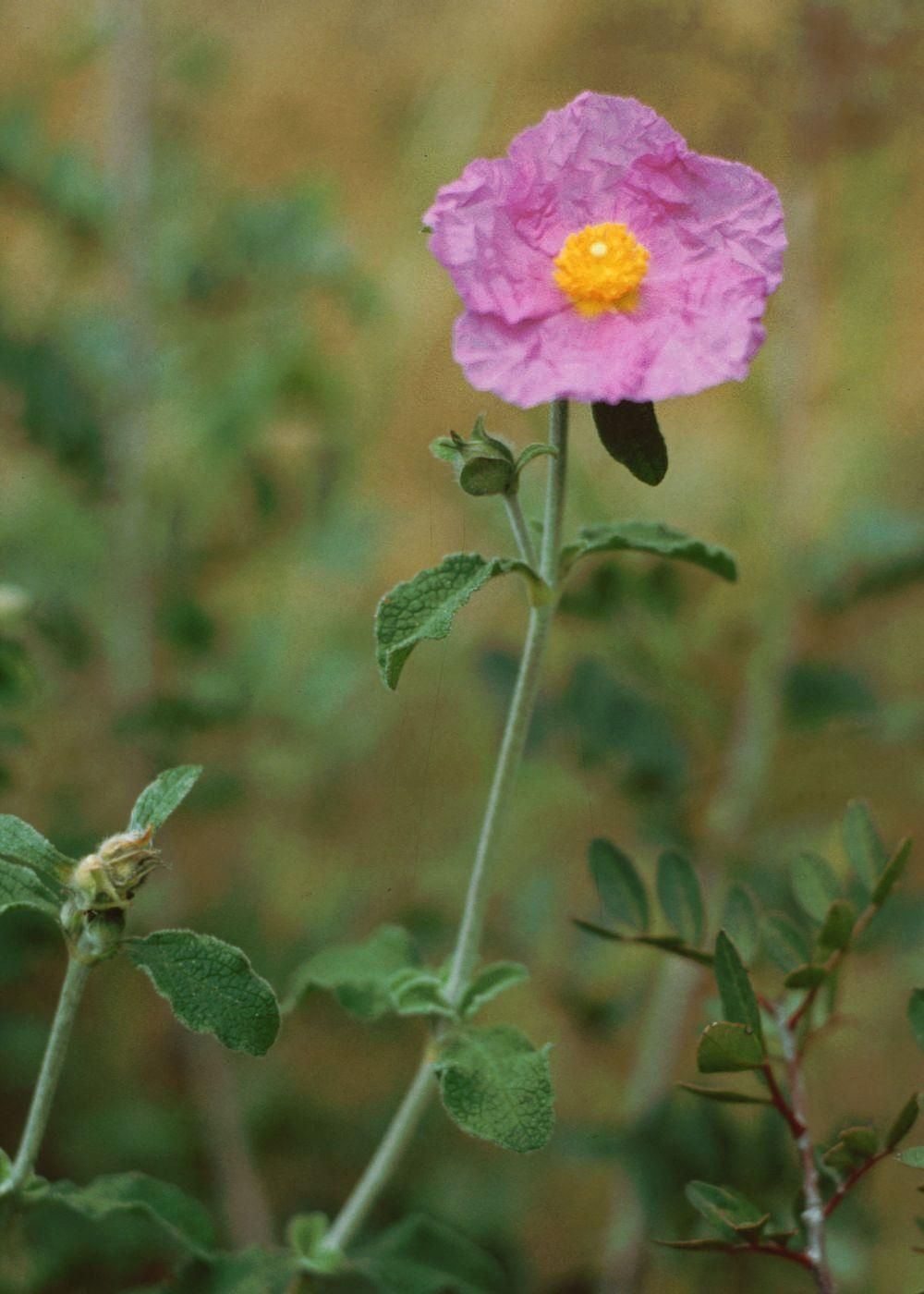 Cistus creticus subsp. eriocephalus, Zistrosengewächse (Cistaceae) – Griechenland/Ελλάδα/Greece: Akra Lardhigos S Argostoli/Αργοστόλι (Kefallinia/Κεφαλληνία)